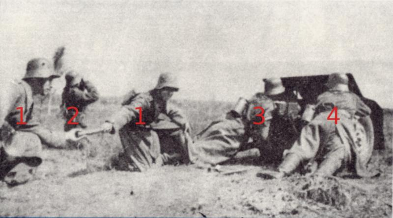 Gun crew of the Bofors 37 mm AT gun of Polish Army, 1938 - functions alloted: 2 Cannoneers (fuse, ammunition a. charge) Gunner (team leader) Gun pointer (dep. gunner) Loader